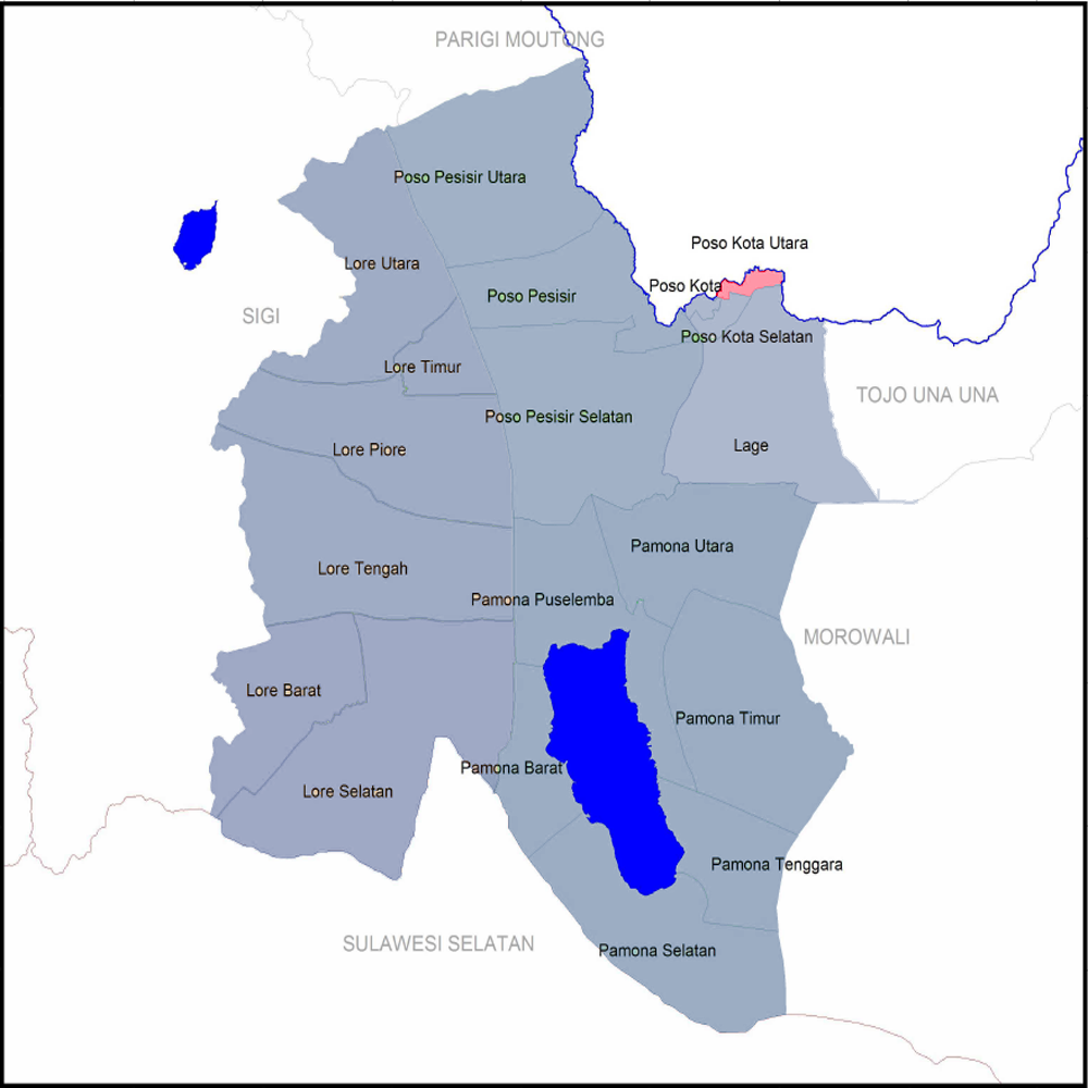 This is the administrative map of North Poso Town District, Poso Regency, Indonesia.